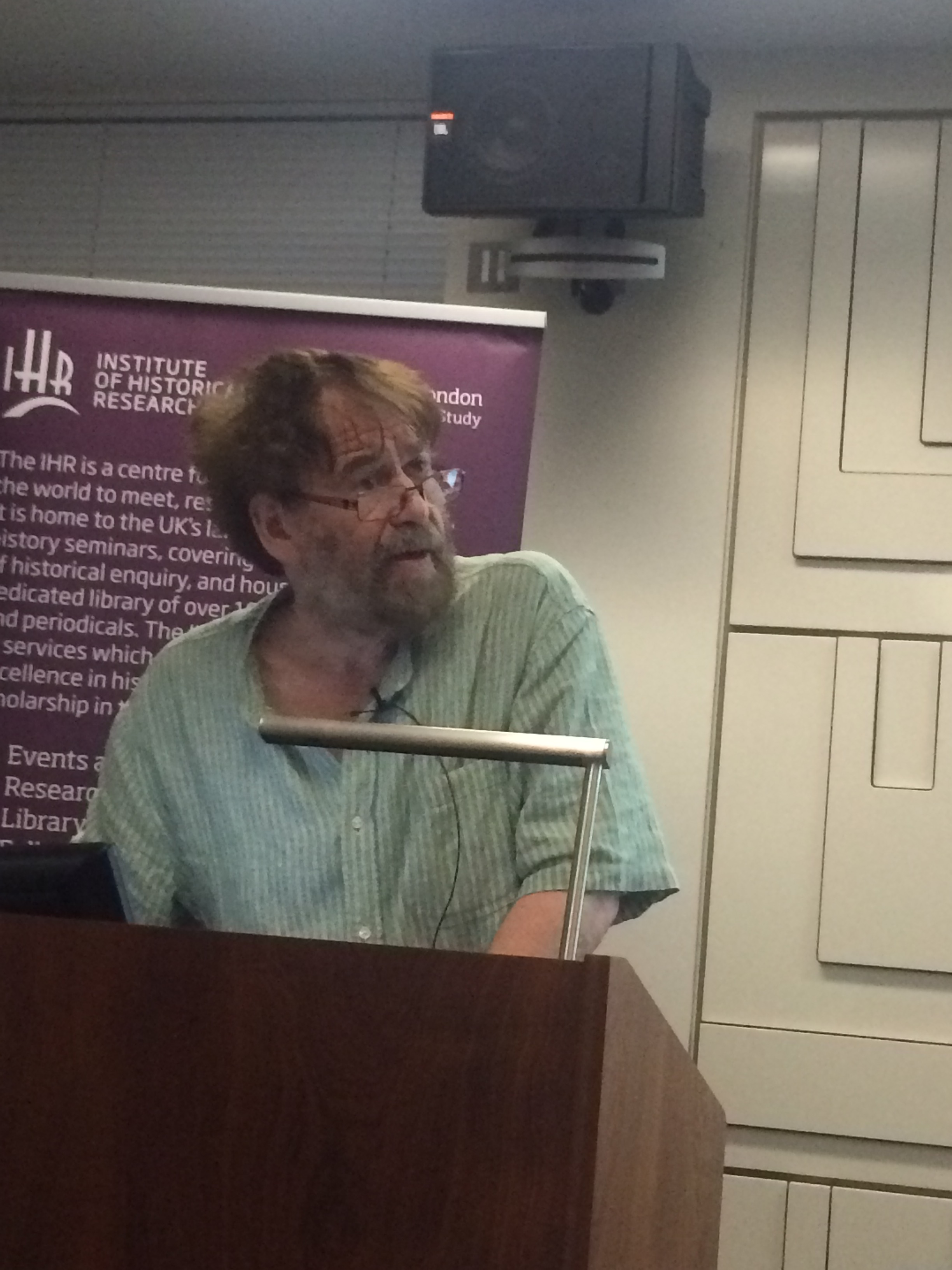 Simon Goldhill at IHR, London